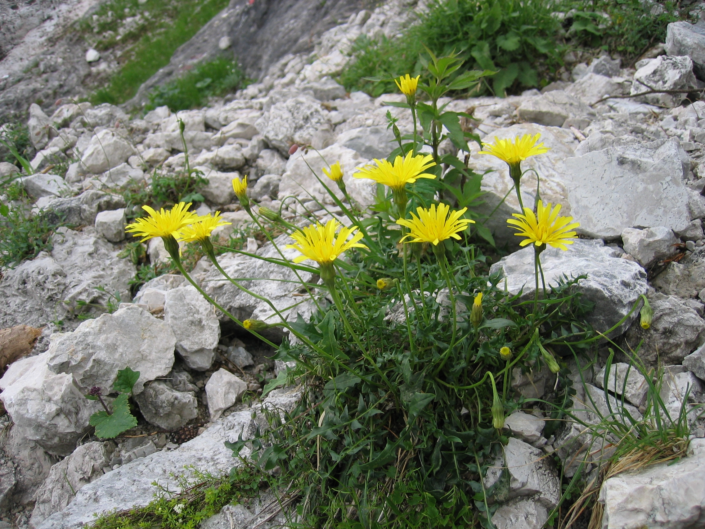 Leontodon hispidus subsp. hyoseroides Grieskar ~1500m, Upper Austria, Austria